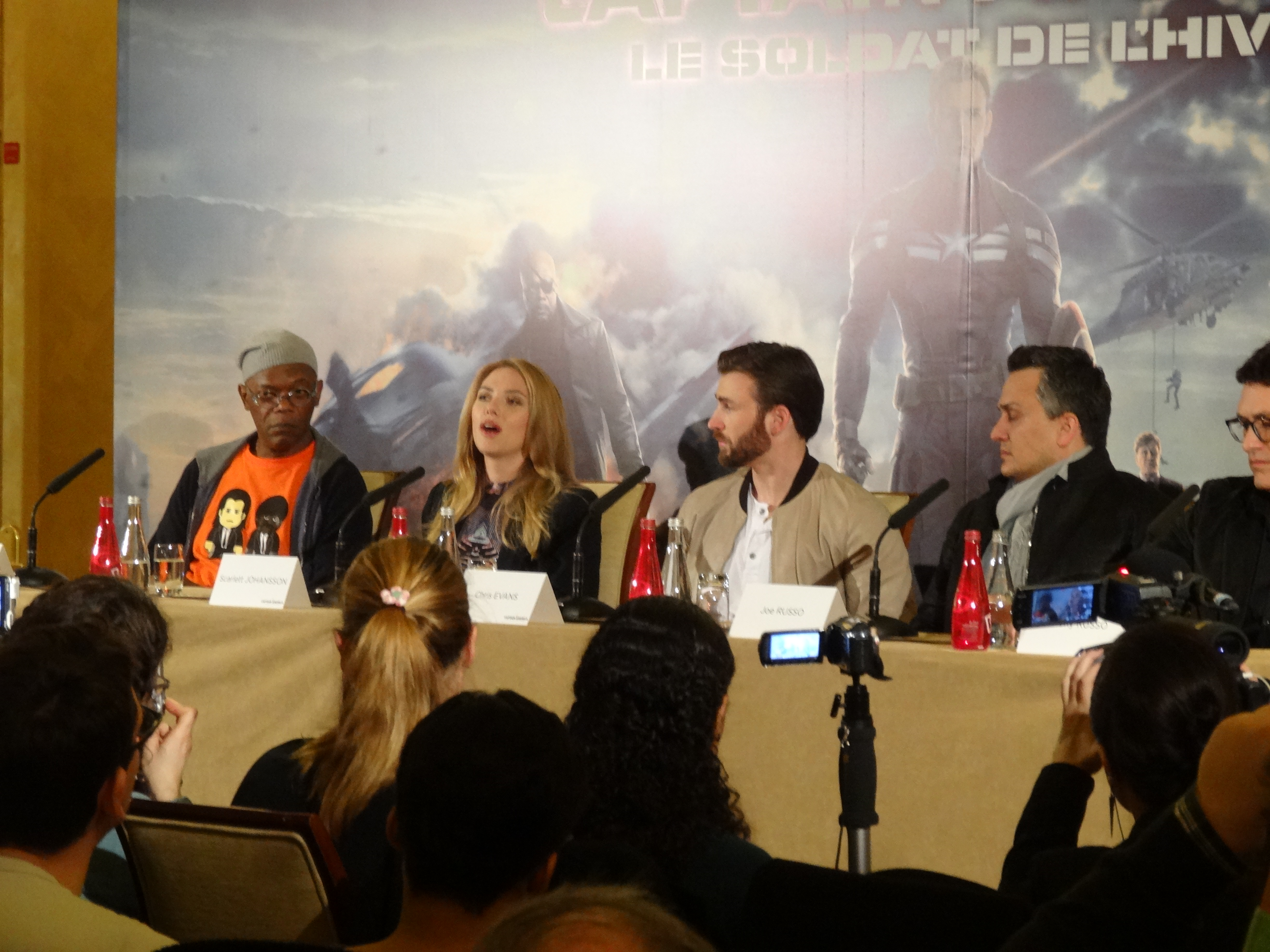 Press conference for Captain America: The Winter Soldier in Paris, France. (L:R: Samuel L. Jackson, Scarlett Johansson, Chris Evans, Joe Russo, Anthony Russo)